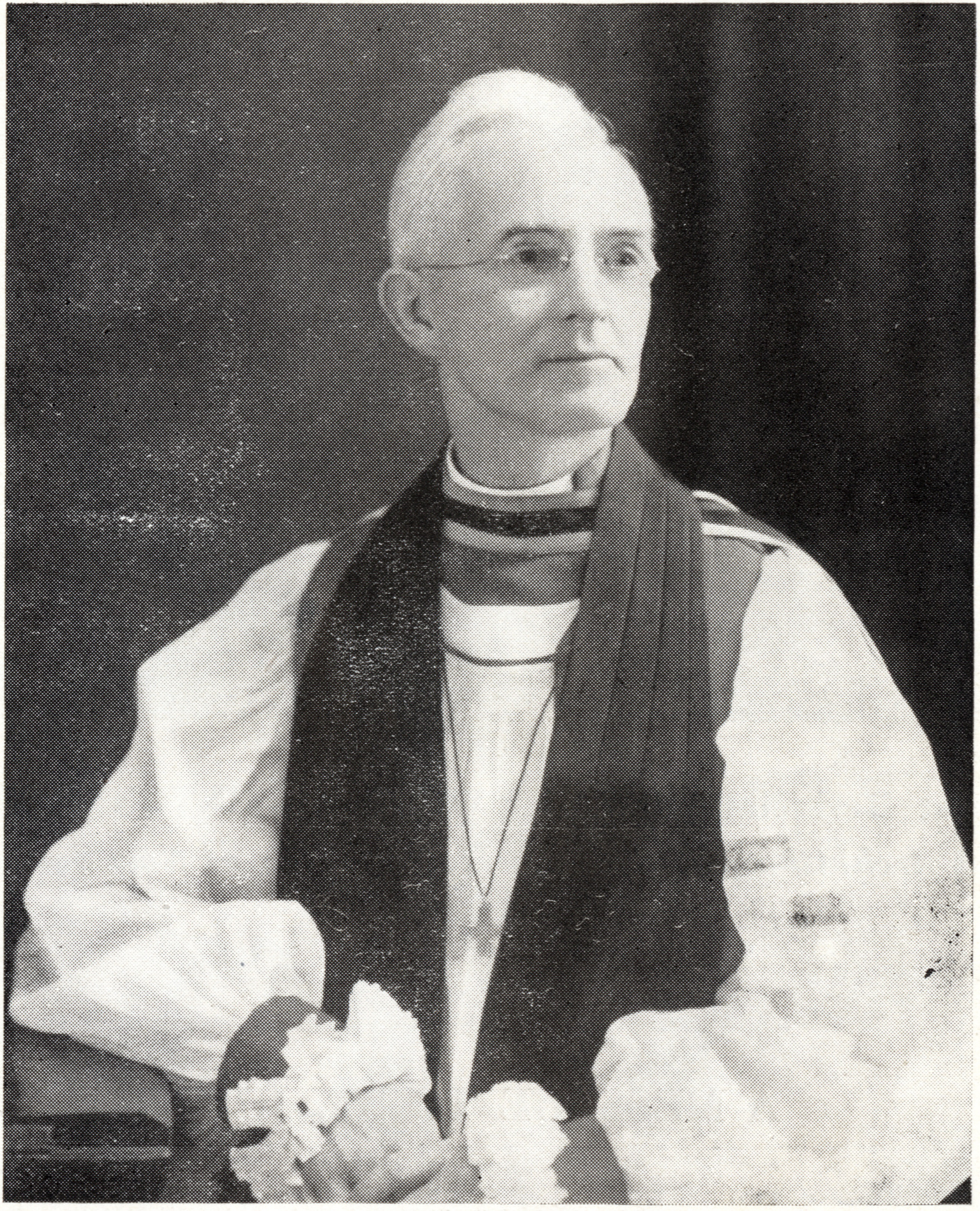 Rt. Rev. W. G. Hilliard, M. A. (a past Rector of St. John's Ashfield)